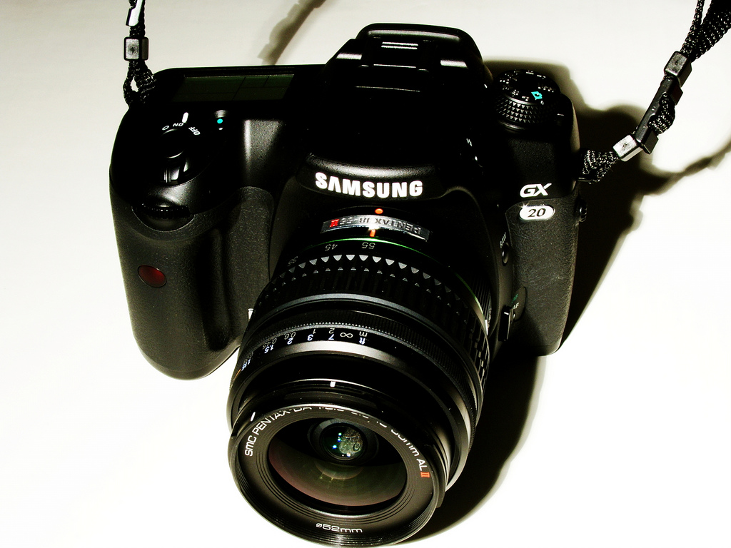 Samsung GX-20 SLR camera. (Clone of Pentax K20D) Однообъективная зеркальная камера Samsung GX-20 (Клон камеры Pentax K20D)